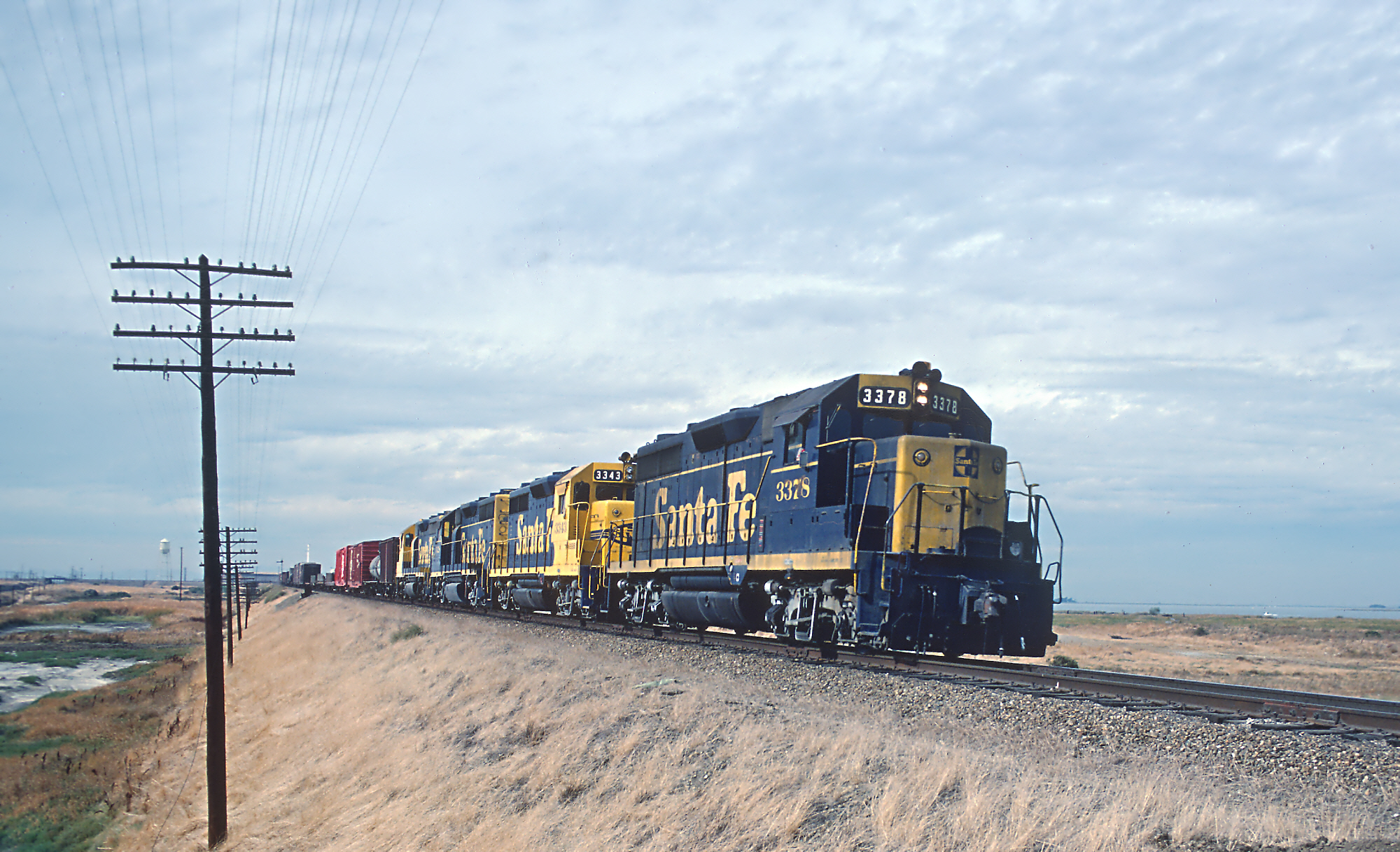 AT&SF #3378 with an eastward freight train at Nichols, between Port Chicago and Pittsburg on the Stockton Subdivision, in November 1980